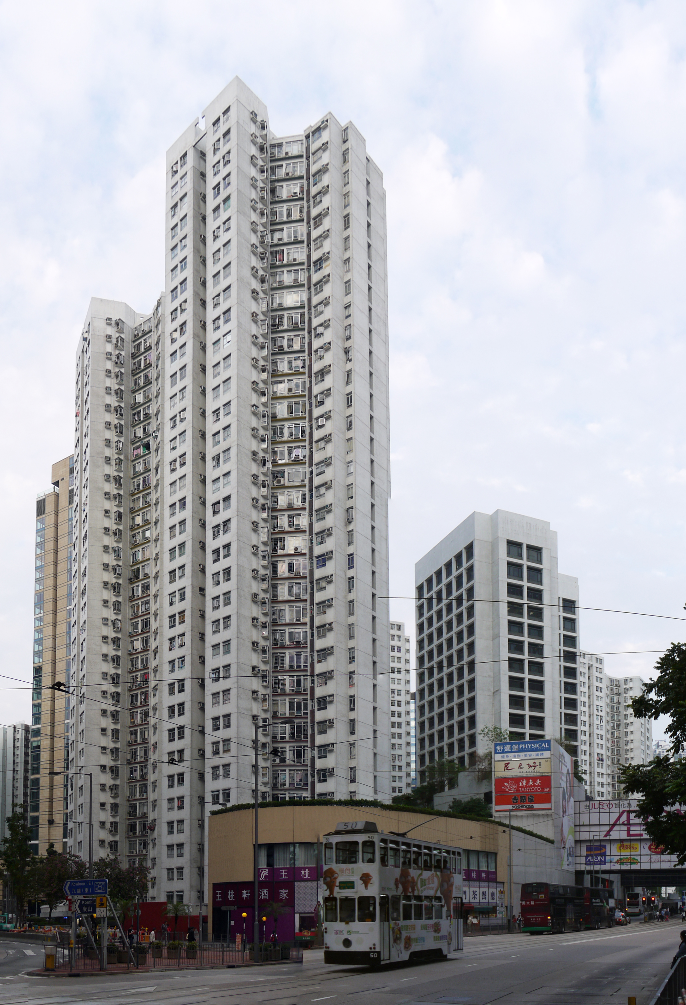 Kornhill Gardens 1